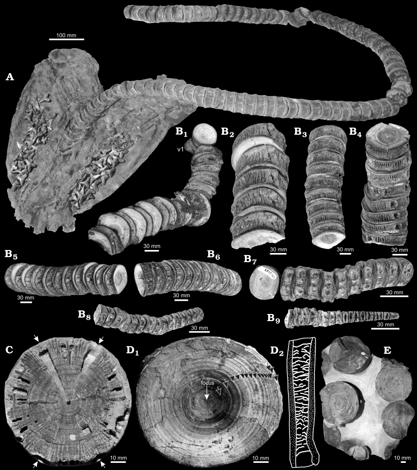 Fig. 7. Centra of Cretoxyrhina spp. A, B. Cretoxyrhina mantelli (Agassiz, 1843), late Coniacian–middle Santonian, Smoky Hill Chalk, Niobrara Chalk, Gove County, Kansas, USA. A. FHSM VP-323. B. FHSM VP-2187, articulated centra from various positions in the vertebral column; v1–14 (B1), v1 =occipital centrum, order corresponds to Fig. 6; v62–66 (B2); v67–75 (B3); v86–93 (B4); v94–104 (B5); v129–139 (B6); v183–193 (B7); v194–208 (B8); v209–227 (B9). C. Centrum in transverse section through about inner margin of the corpus calcareum of Cretoxyrhina mantelli, NHMUK OR.25939, White Chalk Formation (?), near Sussex, UK; arrows indicate articular foramina for neural and ribs or haemal arches (see also Woodward 1912: pl. 43: 14). D. Centrum of Cretoxyrhina sp. (probably Cretoxyrhina agassizensis), DMNH 746C, Eagle Ford Group, Cenomanian, Tarrent County, Texas, USA; view of face (D1) showing focus and 15 bands (black arrows) after the birth ring; tracing of left lateral view of centrum (D2). E. Centra of Cretoxyrhina sp. (probably Cretoxyrhina agassizensis), NHMUK OR.49015, Cenomanian–Turonian, near Kent (?), UK.